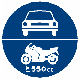 Taiwanese Regulatory Sign R23.1: Road for Motor Vehicles with at Least Four Wheels and Motorcycles with Engine Displacements of at Least 550 cm3 Only